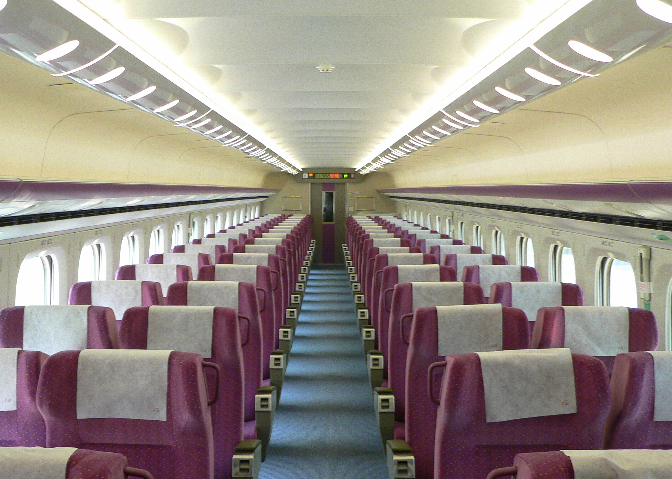 Taiwan High Speed Rail 700T Business Car Interior